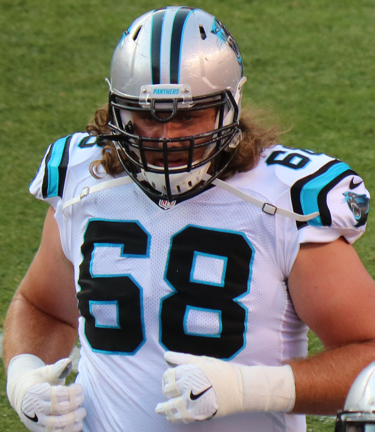 Andrew Norwell, a player on the National Football League.